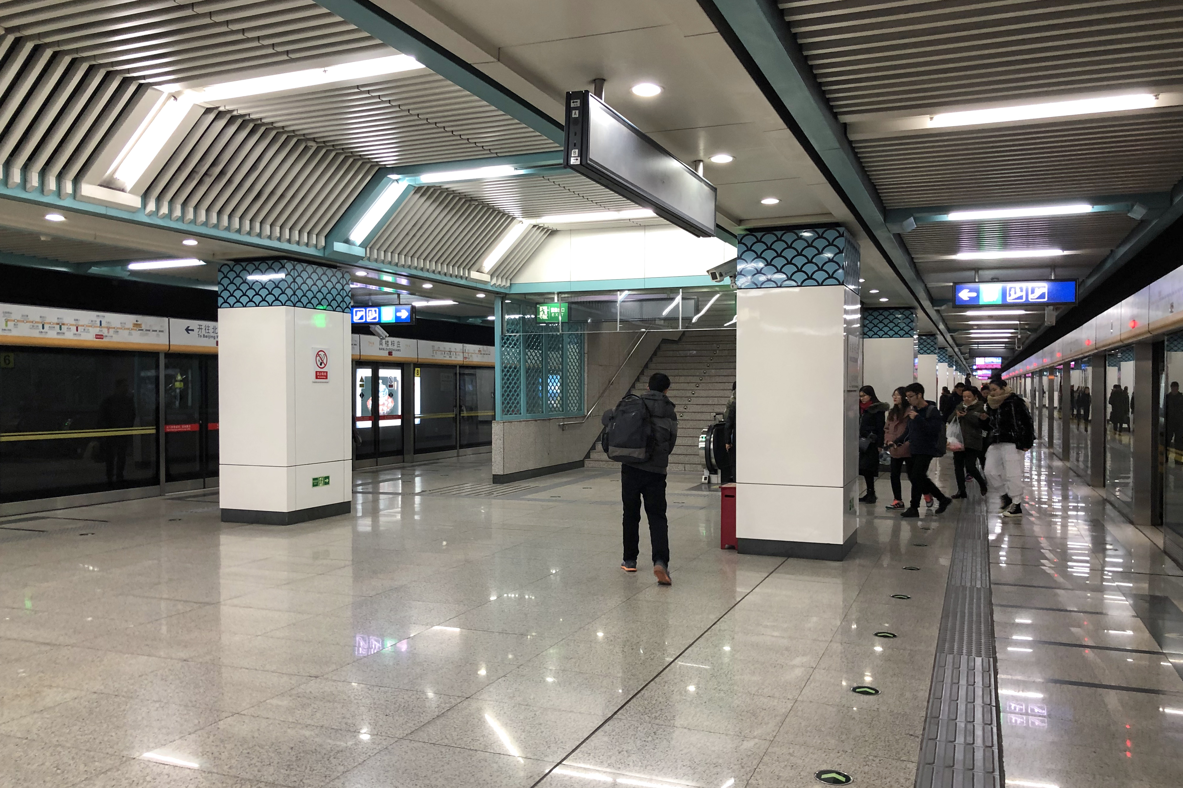 Nan Louzi Zhuang... what do you want to convey?